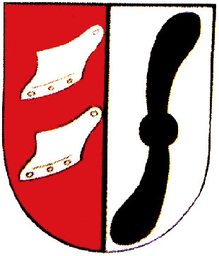 Coat of Arms of Wenzendorf